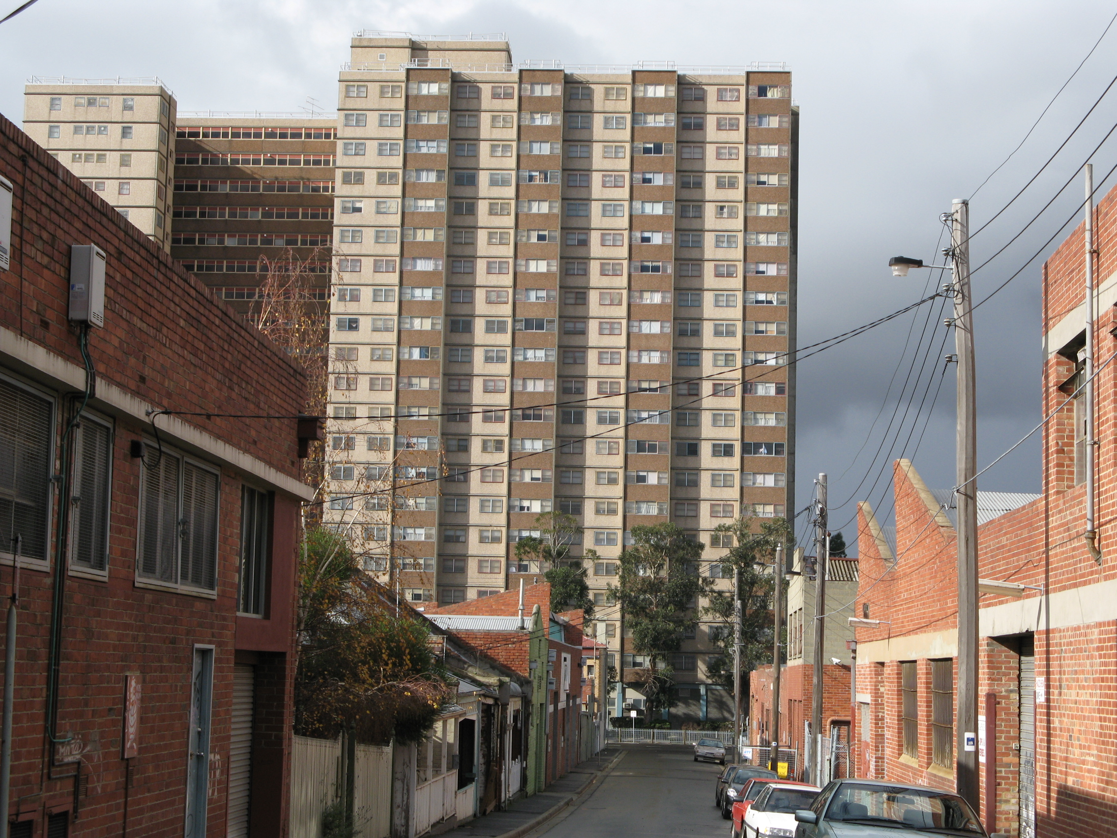 A Housing Commission high rise building in Collingwood. Photo taken by Nick carson in mid 2008.